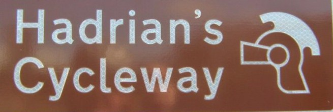 Cycling route sign Hadrian's Cycleway (NCN 72)